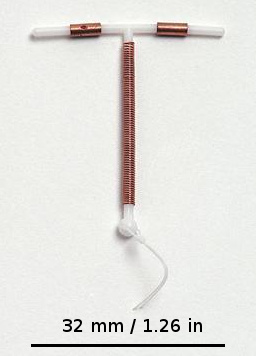 A common copper IUD (Paragard) with scale markings.